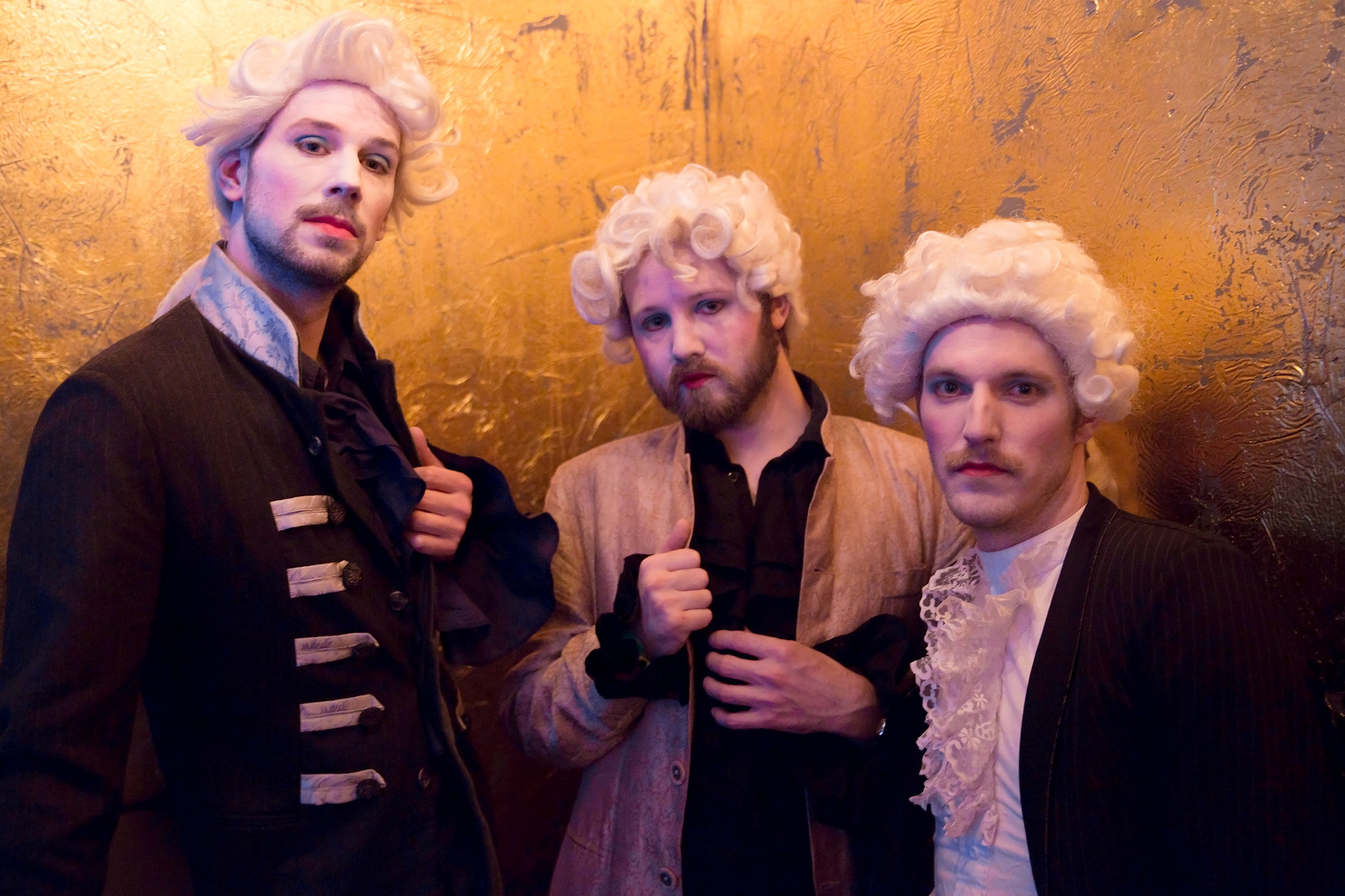 Johann Sebastian Bass at the concert of the Austrian candidates for participating at the Eurovision Song Contest 2015; Chaya Fuera, Vienna,Austria.